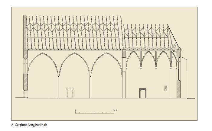 Secțiune longitudinală a bisericii reformate din Tășnad